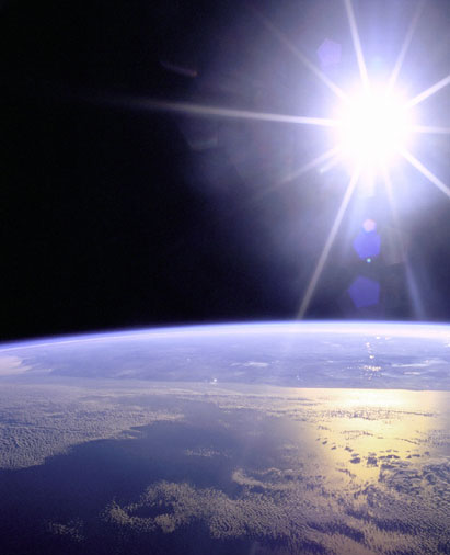 Earth with Sunburst